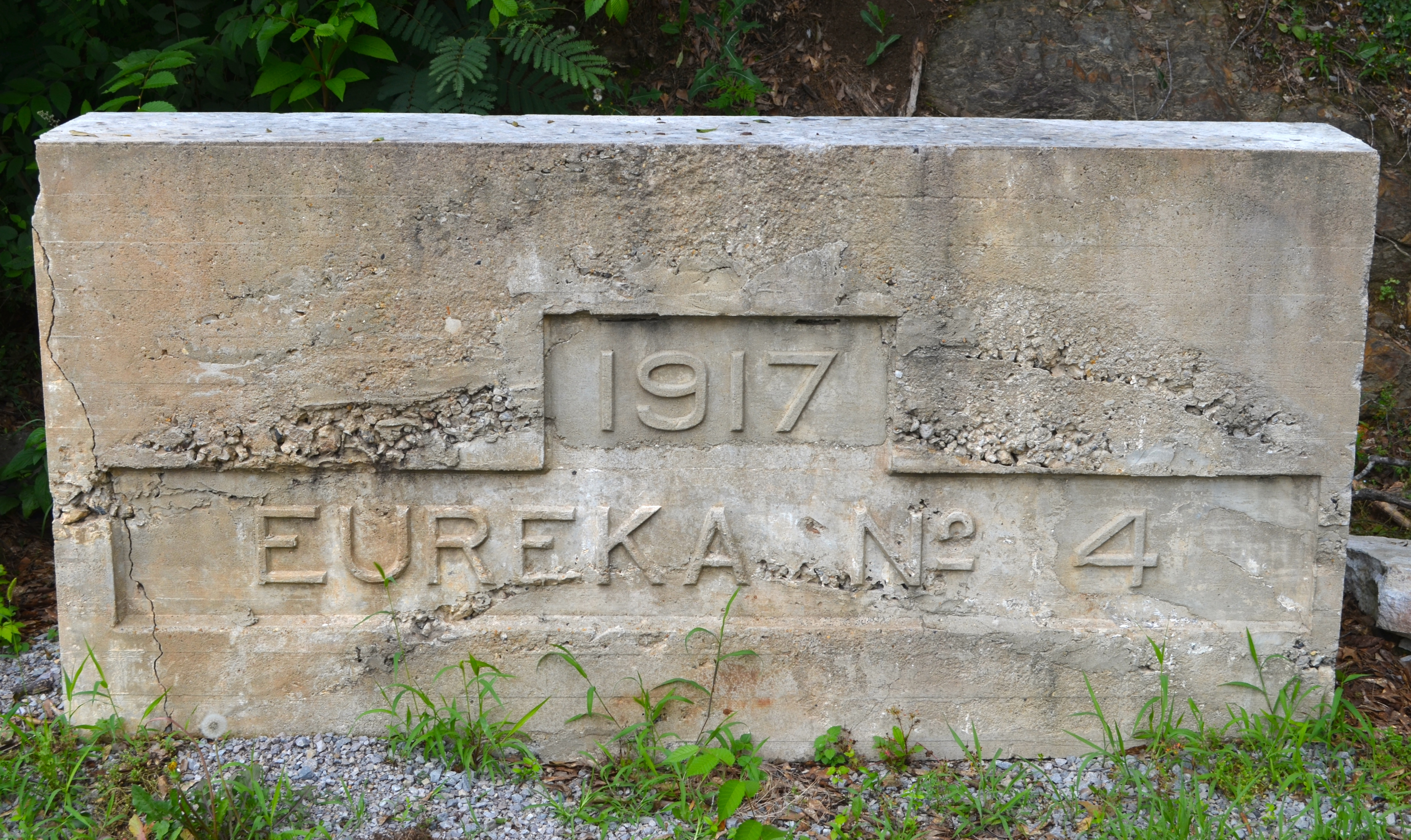 This is a photo of the sign that was once placed above the entrance to the Eureka No. 4 coal mine that operated in Helena, Ala. in the early 20th century. Helena High School is being built on the former site of that mine, so many of the remains (including this sign) have been preserved in the Kenneth R. Penhale City of Helena Museum.